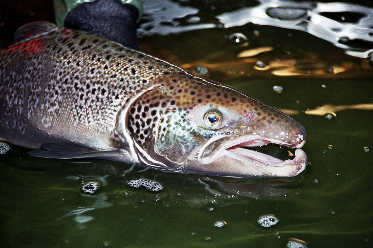 Atlantic salmon showing the kype (hook) in the lower jaw, a characteristic of the male during spawning season. The kype, which is reabsorbed at the end of the spawning season, is used in battle with rival mates. Credit: E. Peter Steenstra/USFWS